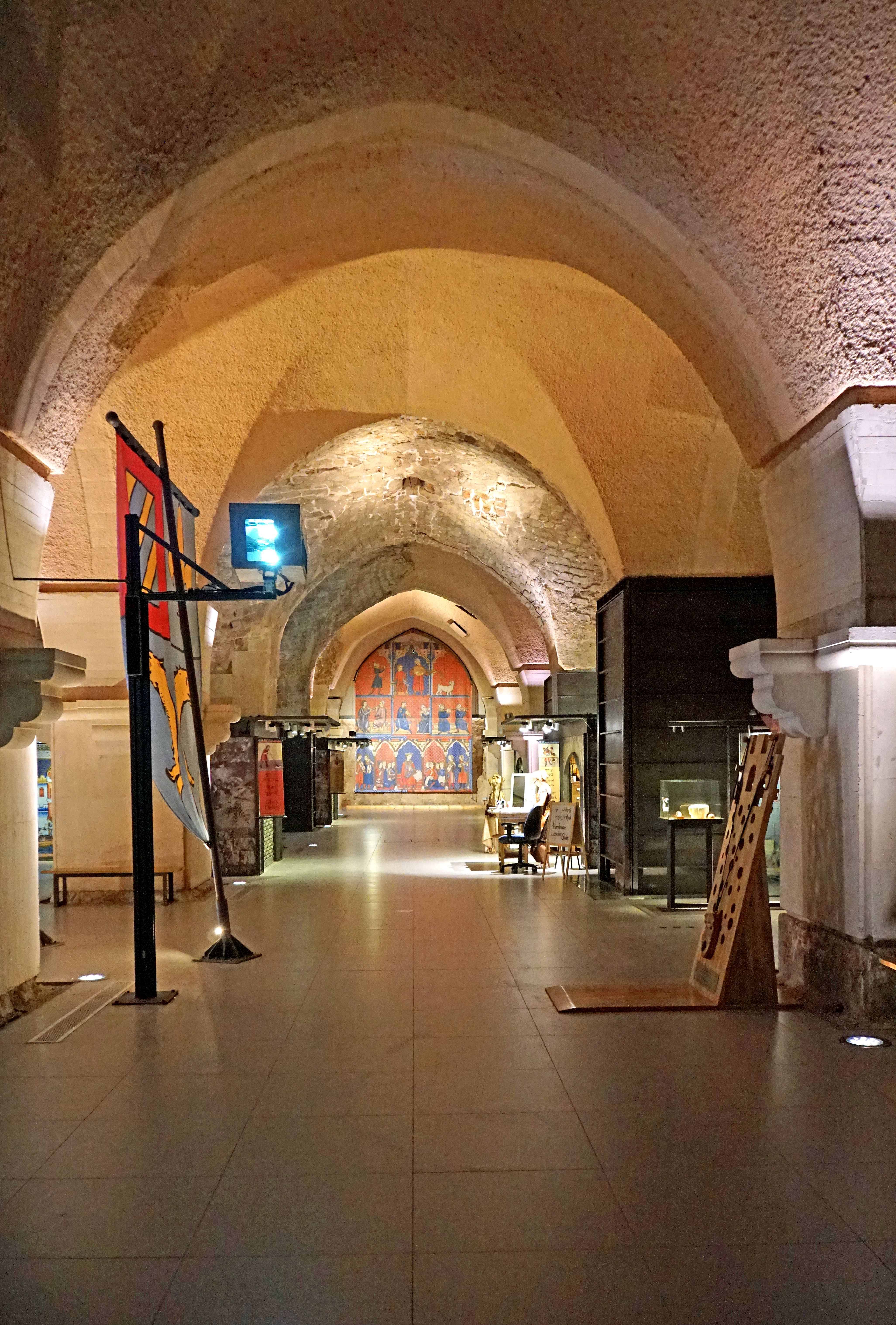 Pillar Hall of the castle was a very large room and had many small shops with local goods.